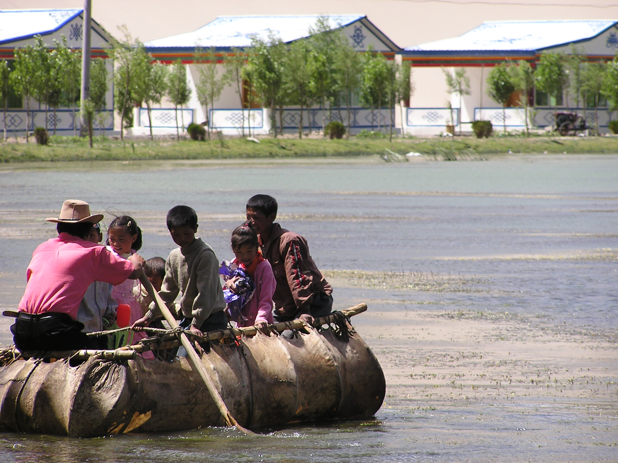 Airport 5